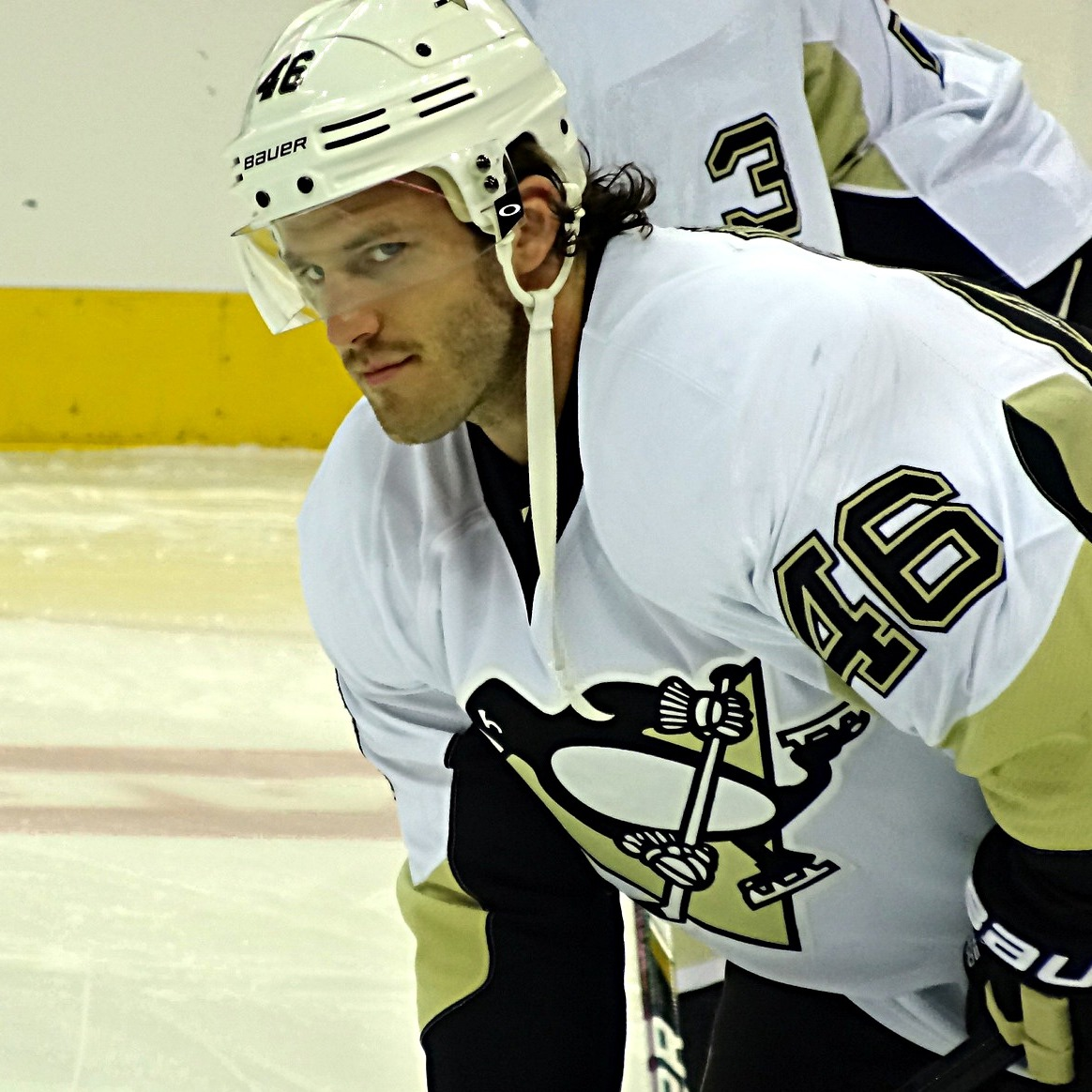 Pittsburgh Penguins forward Joe Vitale warms up before a game against the Columbus Blue Jackets at Nationwide Arena in Columbus, OH, November 2, 2013.